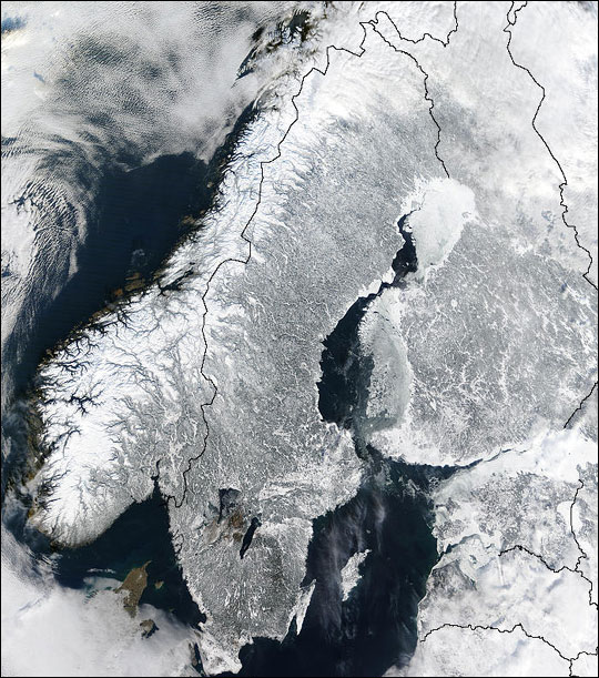 Scandinavian peninsula in winter